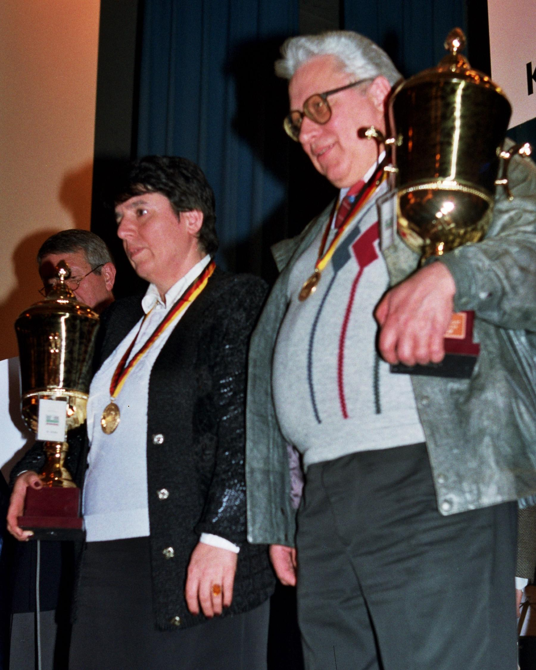 The Senior World Champions 1995: Nona Gaprindashvili and Evgeni Vasiukov, Senior Chess World Championship 1995 at Bad Liebenzell, Photographer Gerhard Hund.